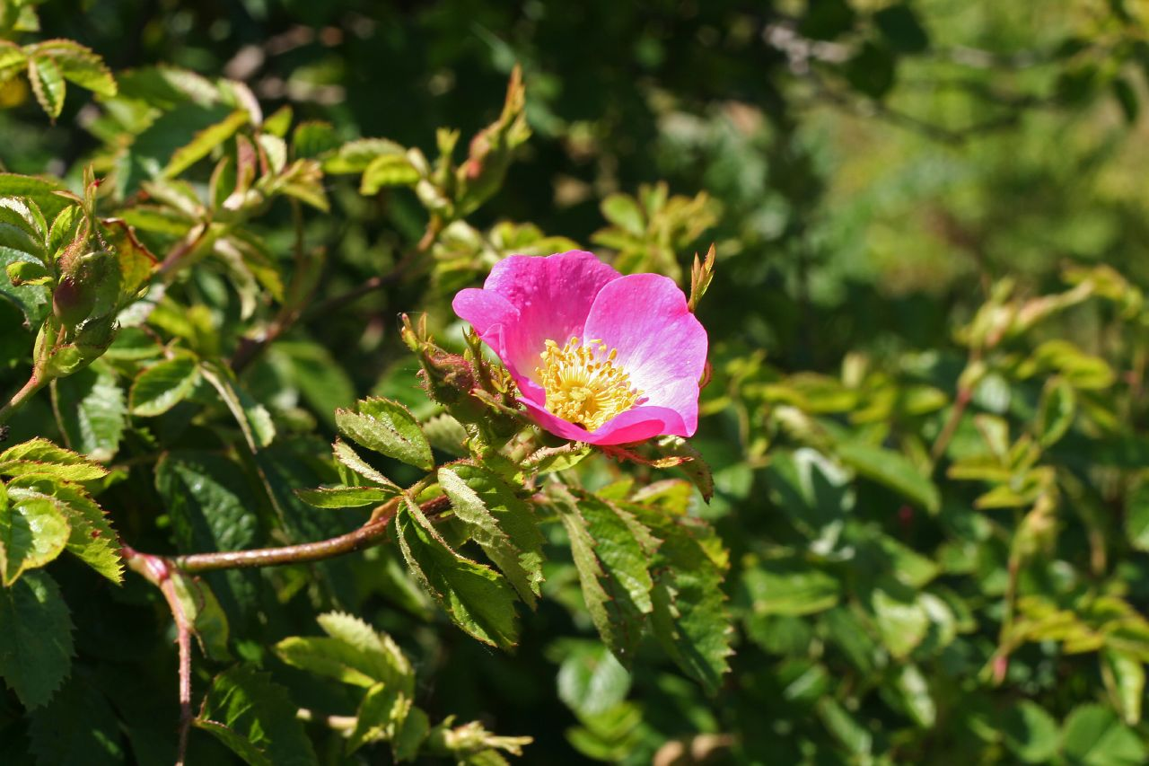 Rosa rubiginosa, a wild rose with foliage scented of apples. England.